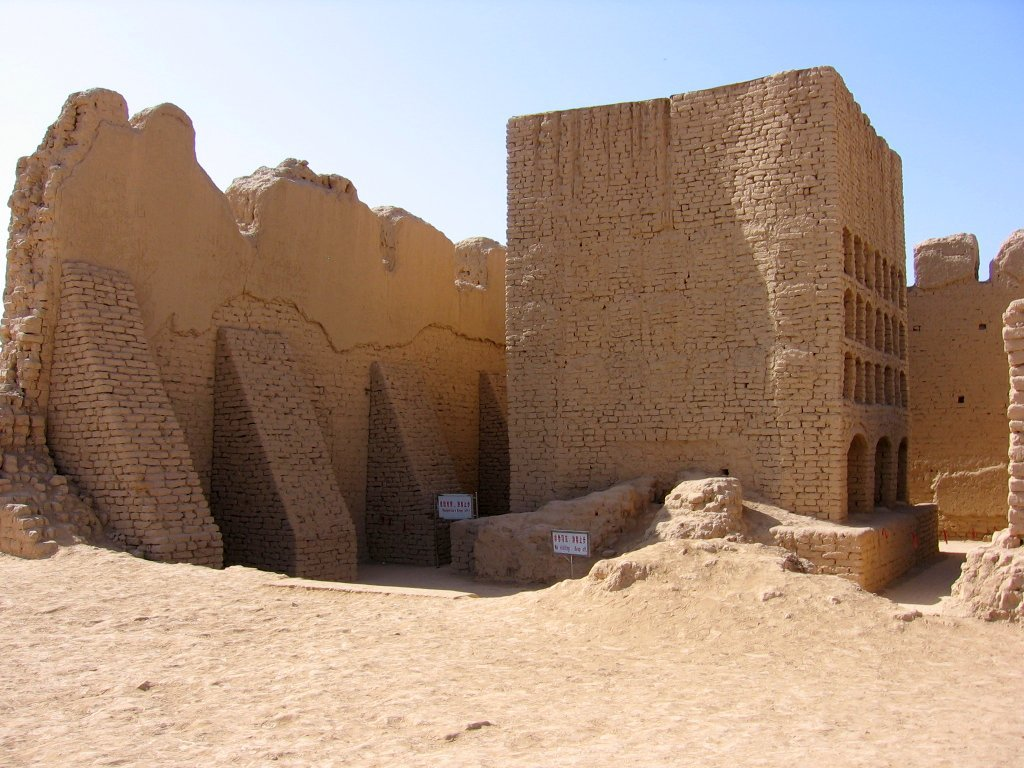 The ruins of Ancient city of Gaochang: Gaochang was built in I century BC. Was an important site along the Silk Road. We still can see old palace ruins and inside and outside cities. It's located 30 Km from Turpan.